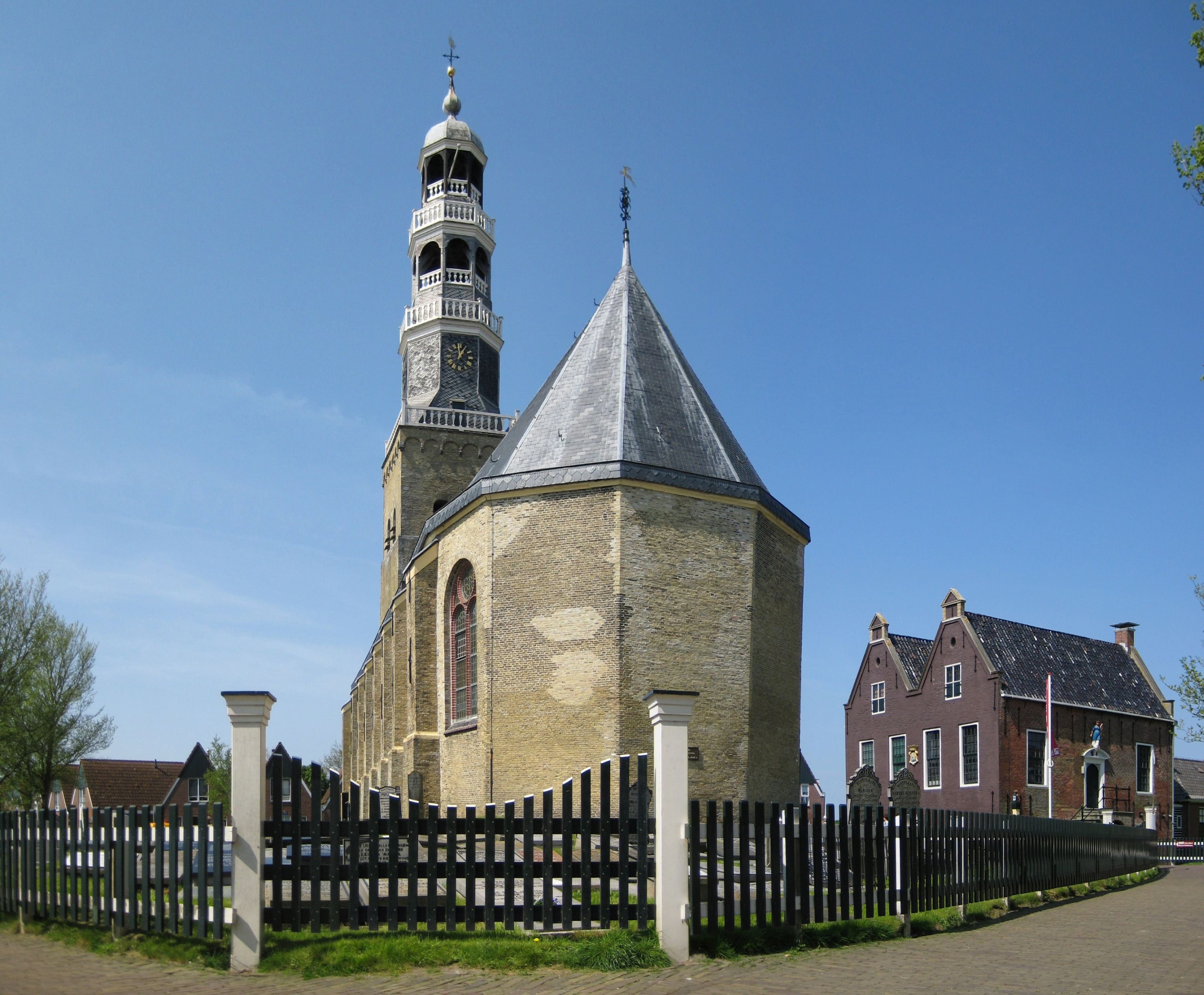 The church of Hindeloopen, a small town in the Dutch province of Fryslân; to the right the building of the Museum HindeloopenFrysk: De grutte tsjerke fan Hylpen, mei rjochts it Museum Hindeloopen